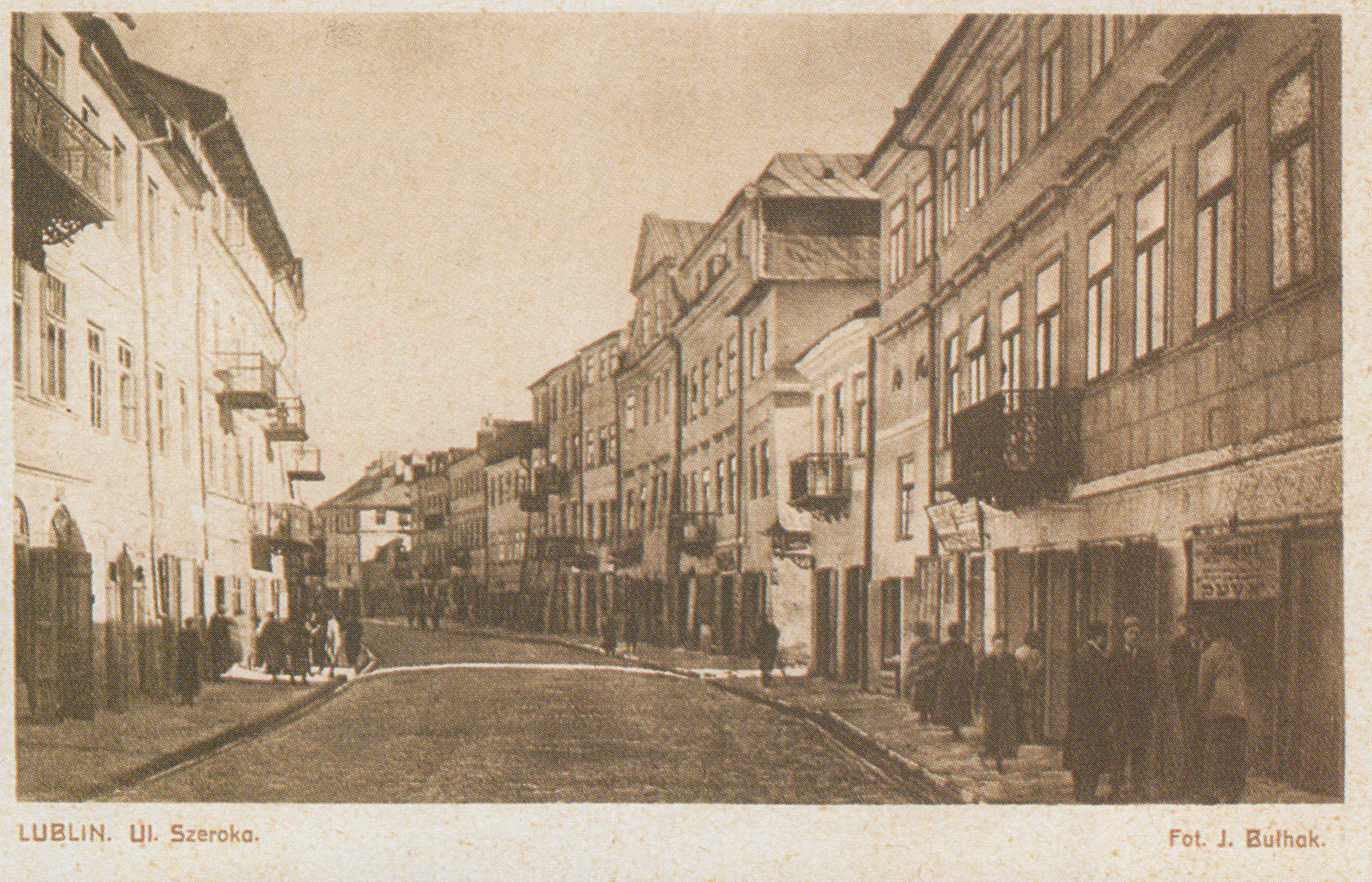 Szeroka Street in Jewish Quarter in Lublin Poland